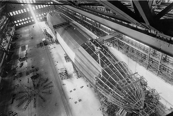 USS Shenandoah (ZR-1) Under construction inside the airship hangar at Naval Air Station Lakehurst, New Jersey, 1923. This view looks aft, with her nose structure in the lower right. Note the jig on the hangar floor, lower left, used for the assembly of the airship's frames. Collection of Admiral Thomas C. Kinkaid, USN, 1973. U.S. Naval Historical Center Photograph.